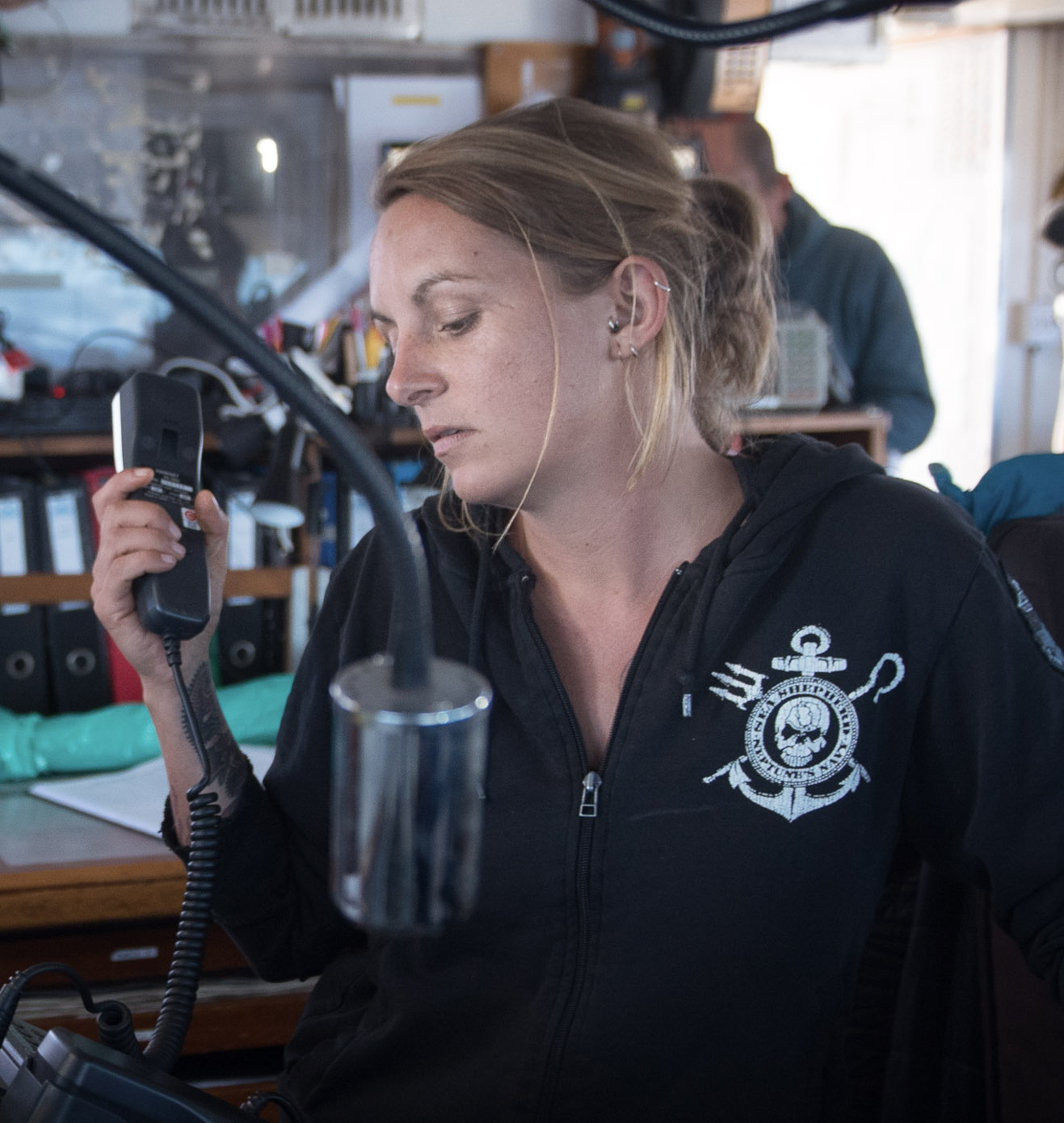 Captain Pia Klemp on the bridge of Sea-Watch 3. April 7, 2018.